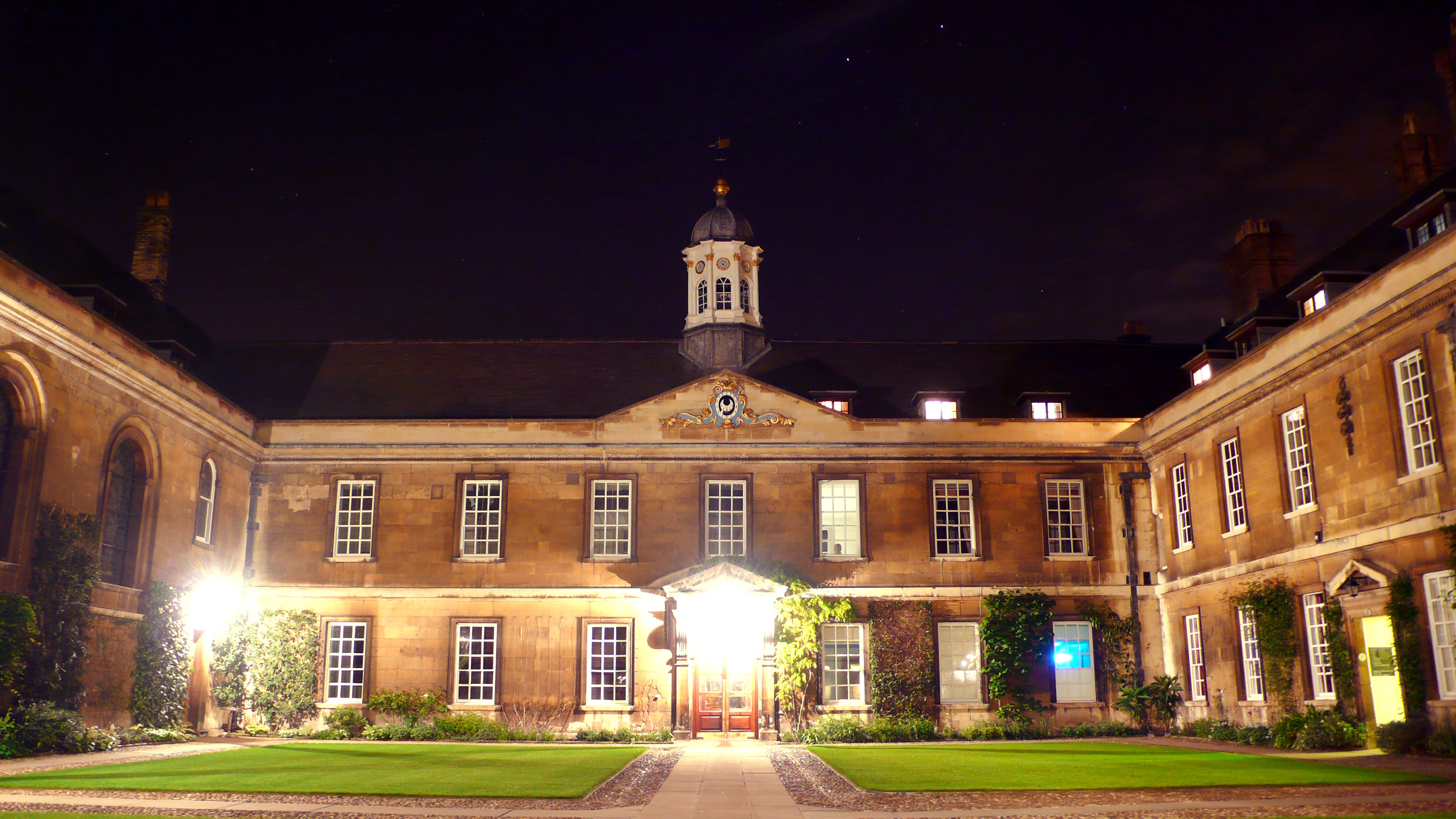 Trinity Hall front court at night.